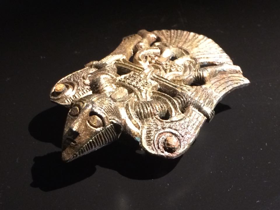 A archeolic find at Uppåkra, Sweden 2012, possibly depicting Völund, (eng. Wayland the Smith) from norse mythology. Photo by the uploader.